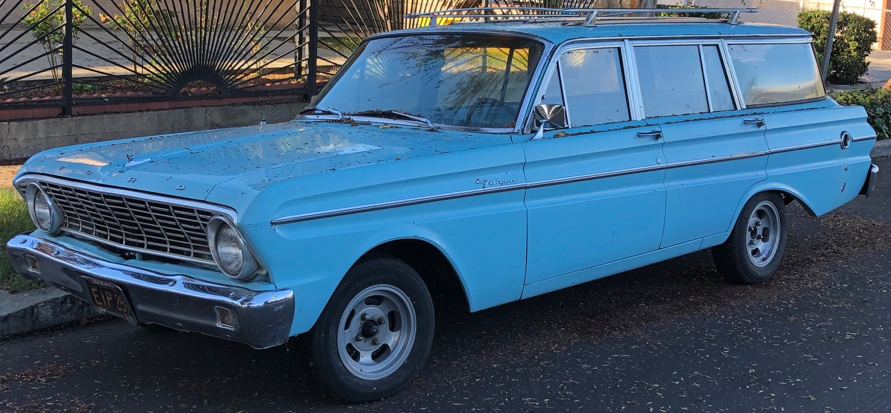 Ford Falcon Wagon